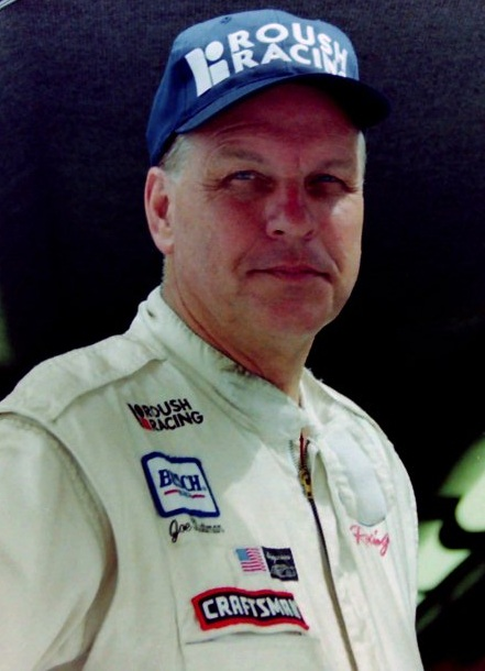 NASCAR driver Joe Ruttman in 1996.